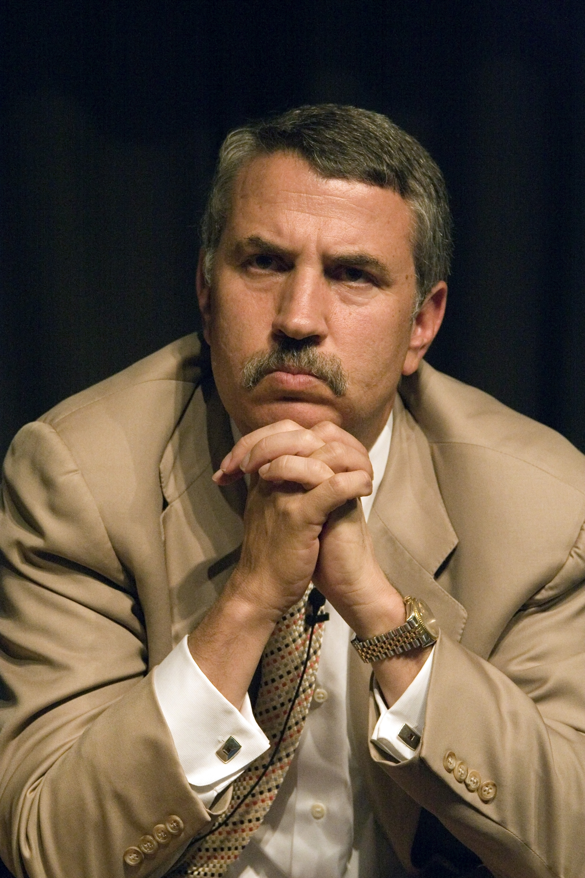 Thomas Friedman, American journalist, columnist, author and three-time winner of the Pulitzer Prize, currently working as an op-ed contributor for The New York Times.